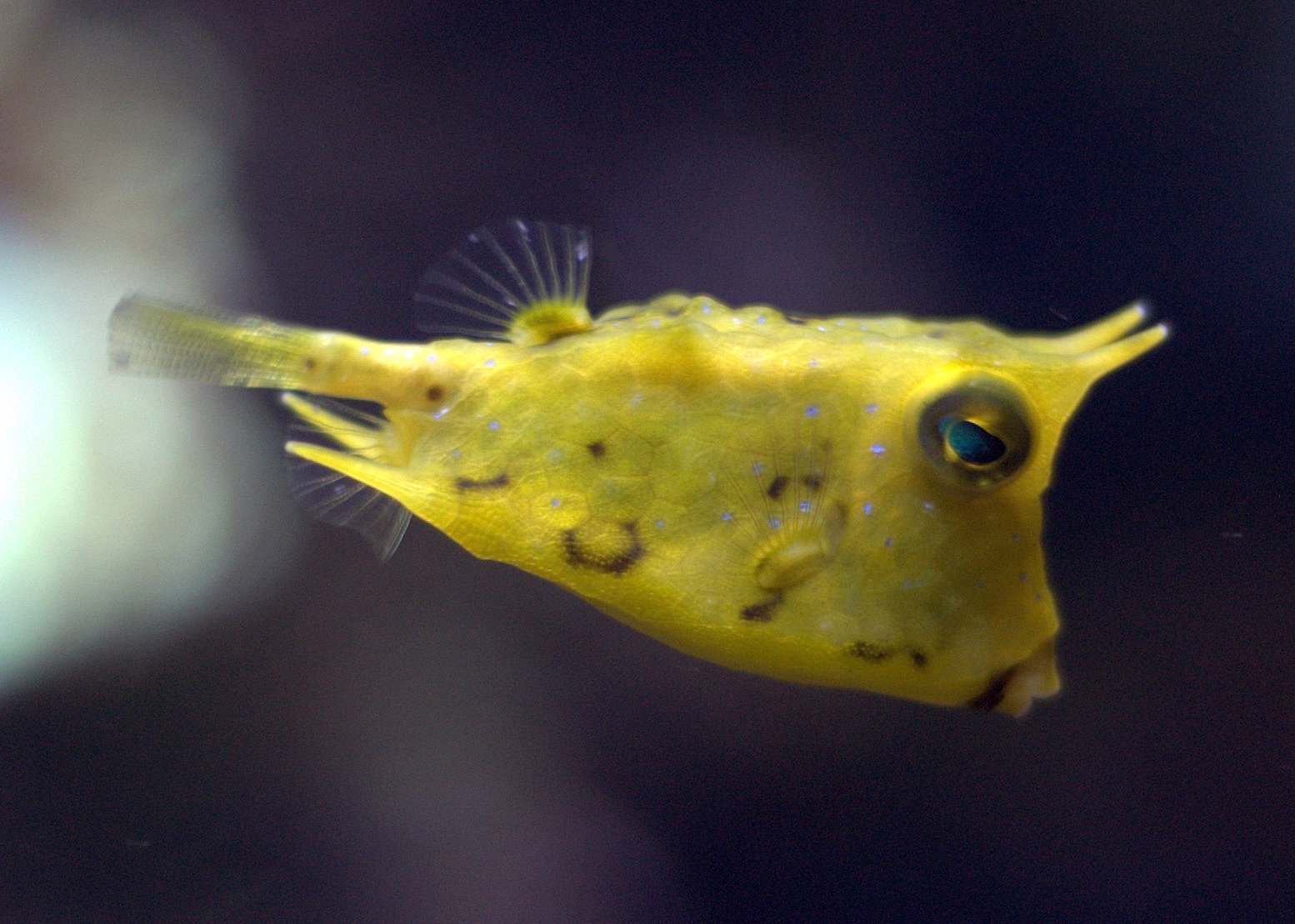 This is a Longhorn cowfish (see Longhorn cowfish), its scientific name is Lactoria cornuta), it's a kind of boxfish from the Ostraciidi family. The image was taken in Danmarks Akvarium (an public exhibition aquarium) just north of Copenhagen in Denmark. Camera: Nikon D50 using a fixed Nikkor 50mm F1.8 lens Location: Charlottenlund, Denmark.